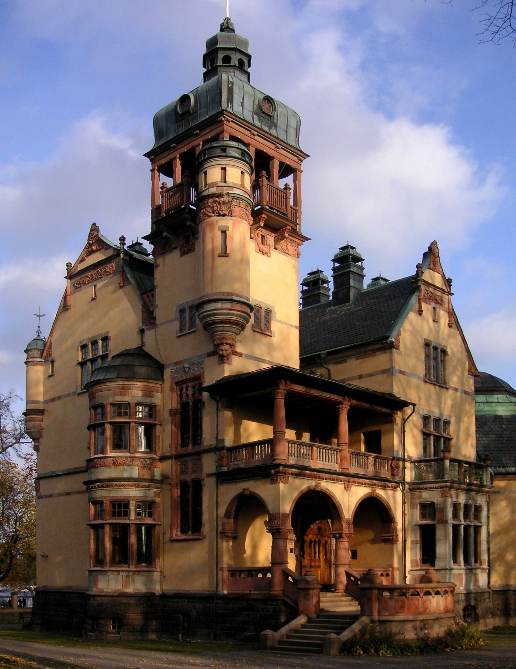 Villa Lusthusporten situated on Djurgården in Stockholm, Sweden.